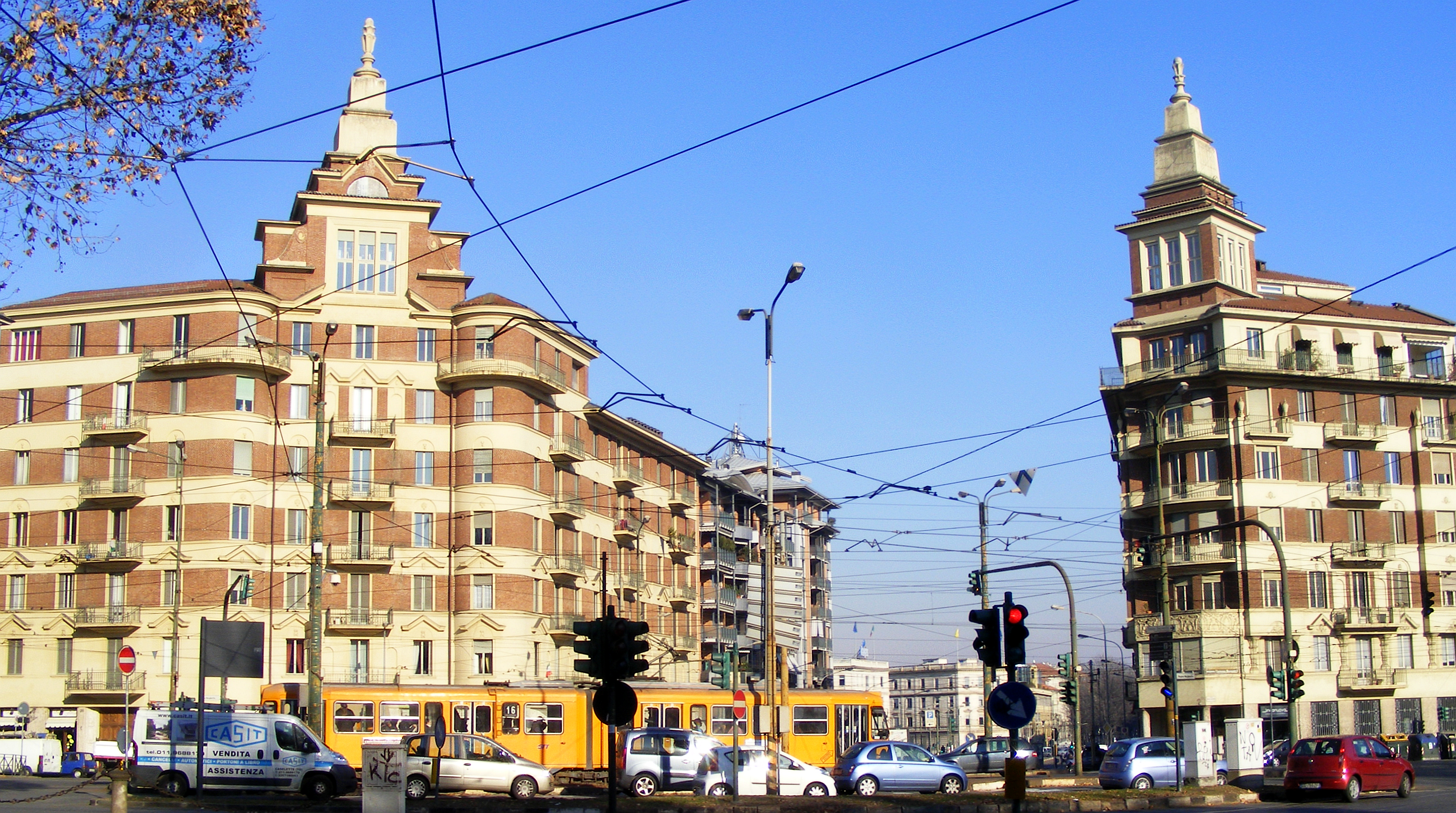 Torri Rivella seen from Royal Gardens (Turin, Italy)